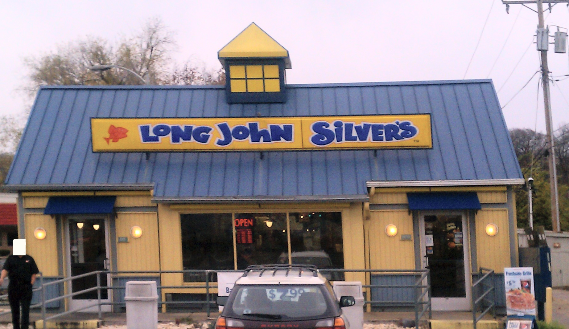 Long John Silvers location in Easton, PA